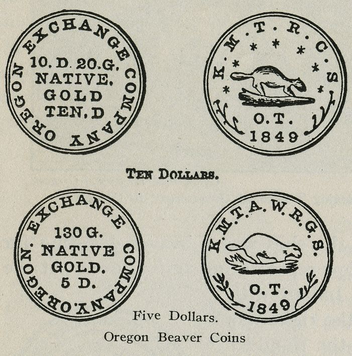 From: Oregon: Her History, Her Great Men, Her Literature. By John B. Horner, first copyright 1919.